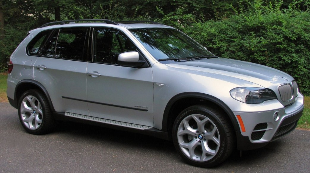 2011 BMW X5 xDrive 35d. Diesel version for United States market. Has sports package (optional) with 20" rims (optional).